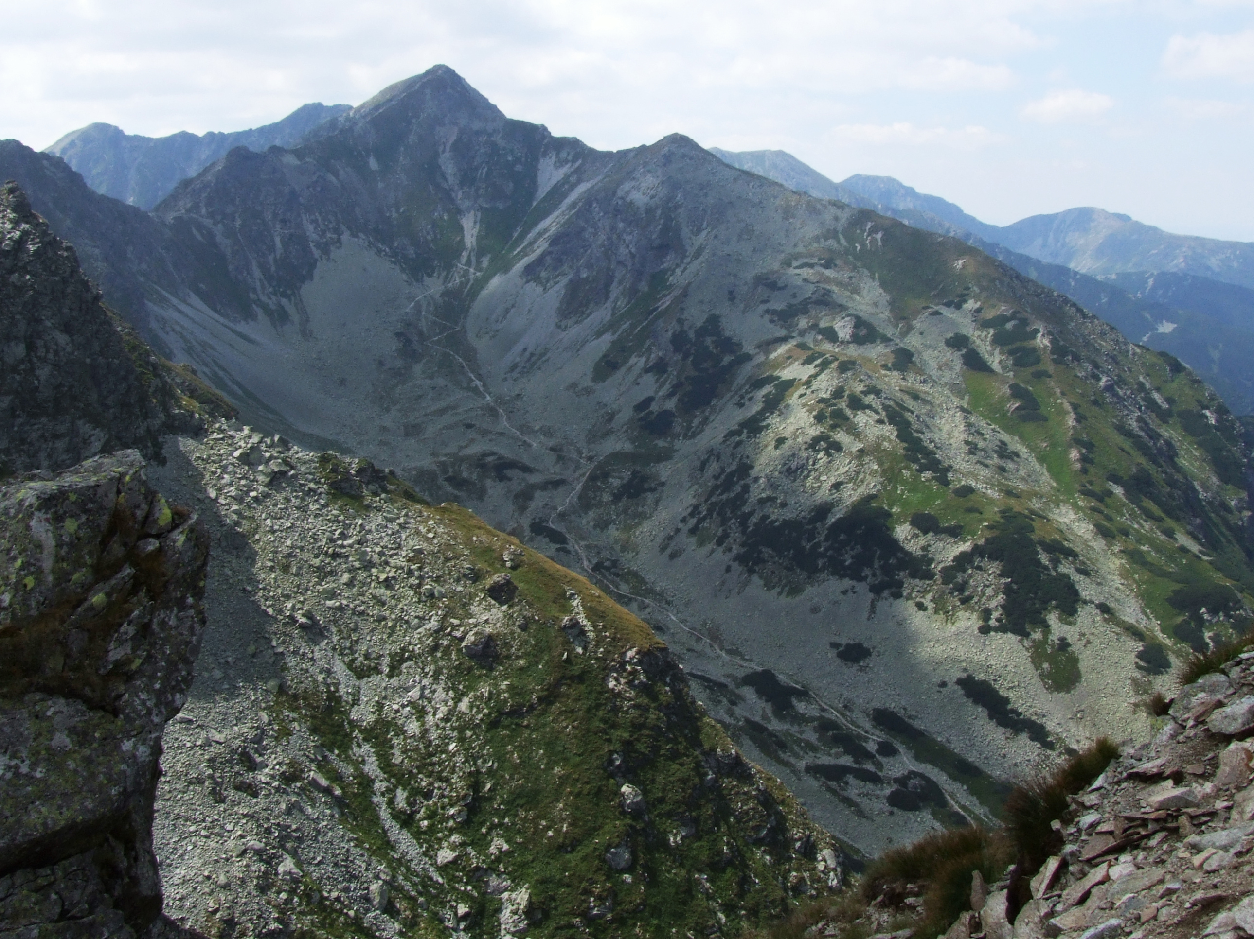 Smutna Dolina (West Tatra Mountains